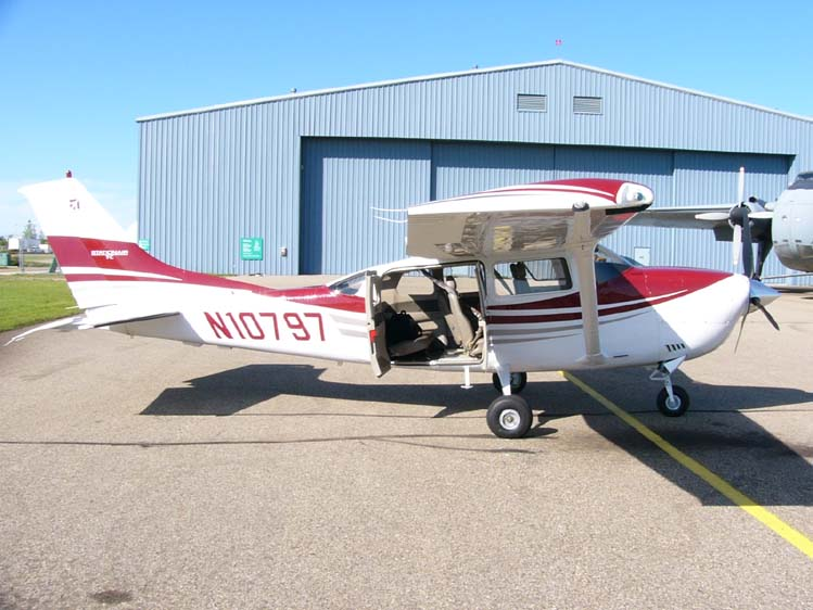 A 2005 model Cessna T206H Stationair (N10797) at the Canadian Owners and Pilots Association Convention, Wetaskiwin, Alberta 24 June 2005, showing its large "clamshell" cargo doors.